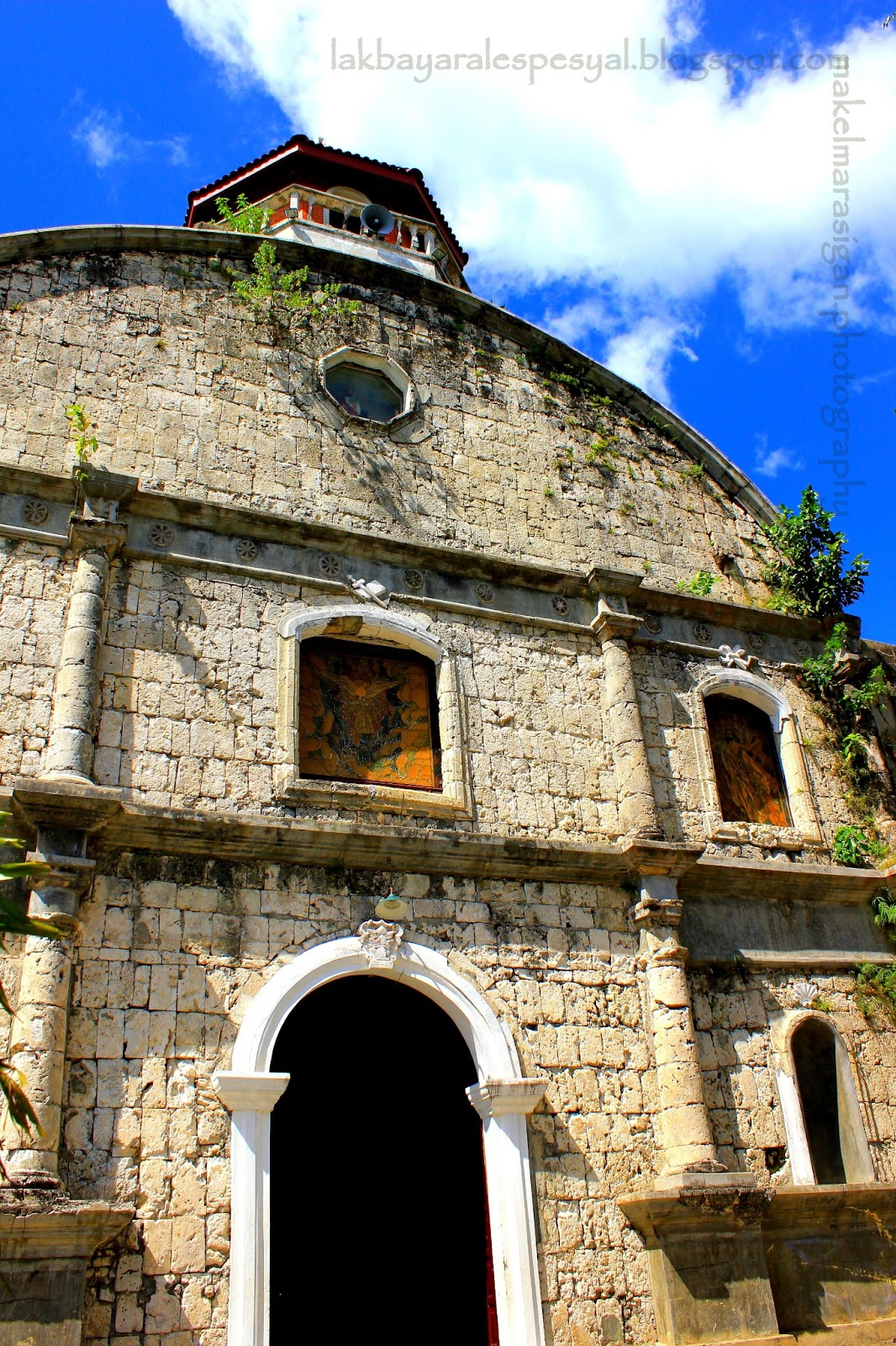 Made up of coral stone blocks, the church was built in 1817.